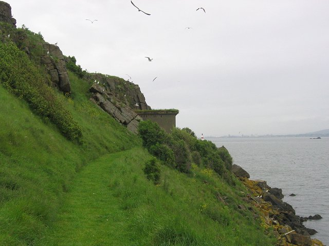 East end of Inchcolm Inchcolm is home to a famous abbey and is the last resting place of kings and queens of Scotland. As it's an island in the Firth of Forth it is covered in military relics, defending the Bridge, Rosyth and Edinburgh. The picture shows one of the gun emplacements at the east of the island and some of the many gulls that nest here.